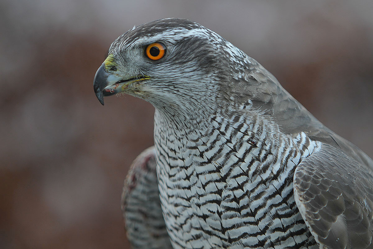 A female Northern Goshawk - owned by a falconer in Scotland. Females are larger than males and the plumage of the male and female are identical.